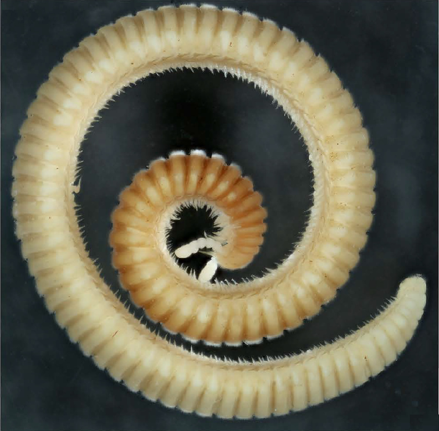 Columbianum major (Siphonophorida, Siphonophoridae), female, from Reserva Duche Terra Firme, Amazonas Province, Brazil. Total length 43 mm. , Reserva Flor.